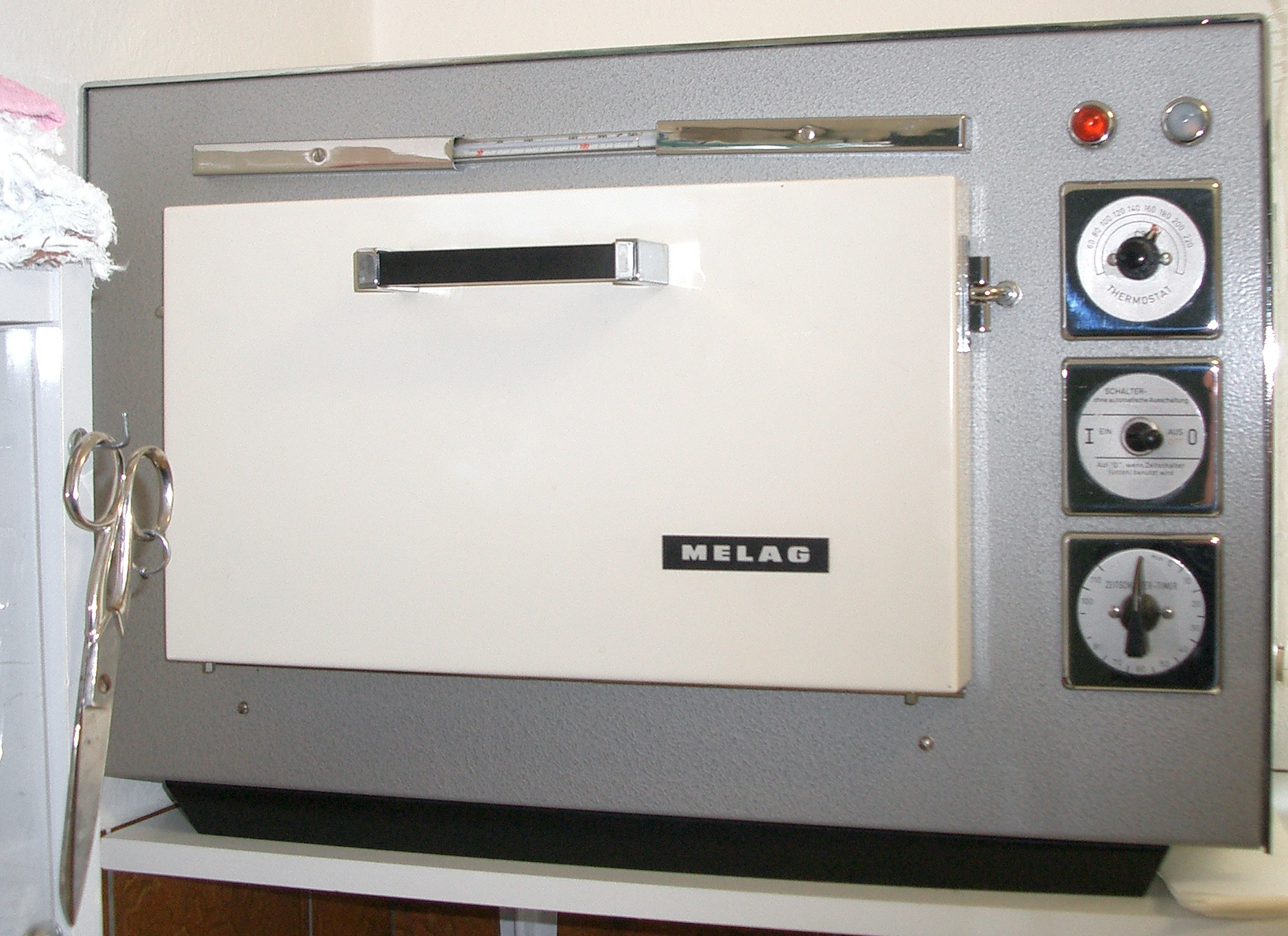 Dry heat steriliser